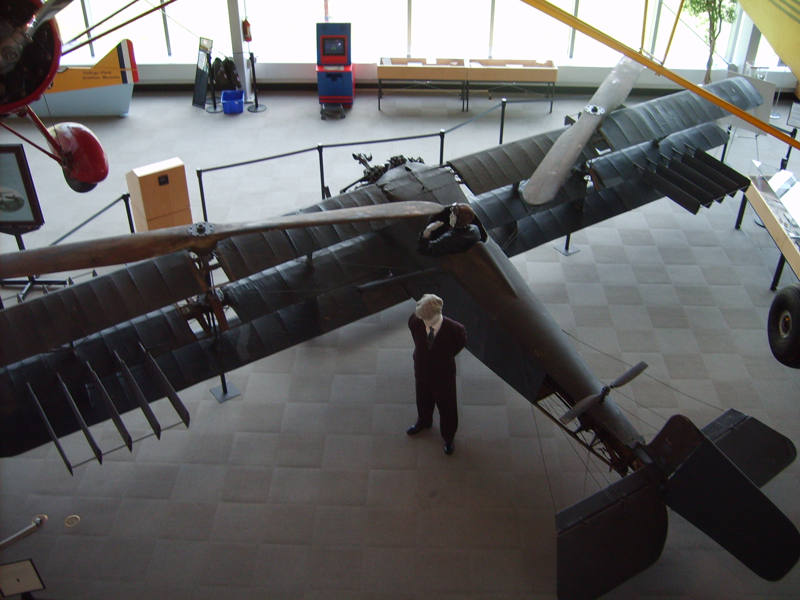 The 1924 Berliner Helicopter as on exhibit at the College Park Aviation Museum in College Park, Md.